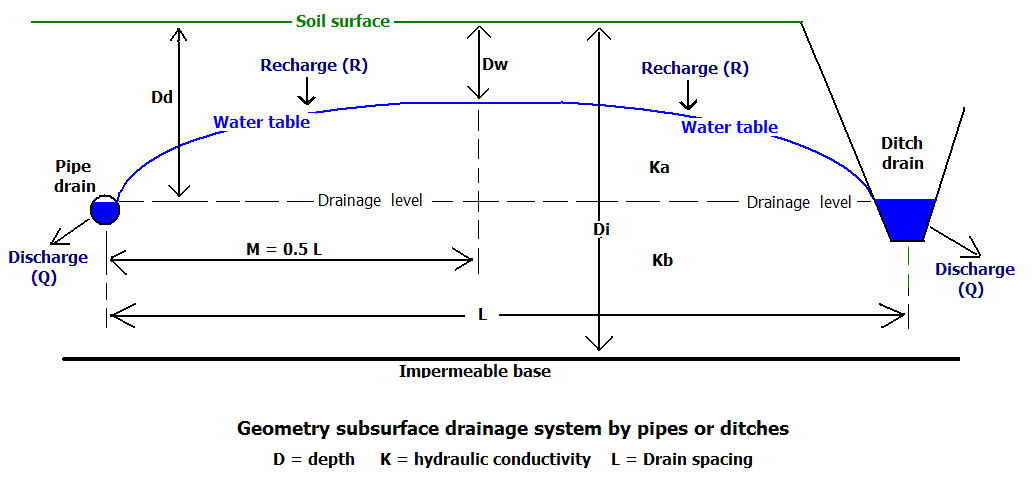 Cross-sectional geometry subsurface drainage system and parameters in Hooghoudt's drainage equation